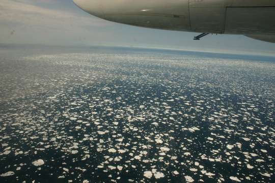 Sea ice northwest of Iceland.